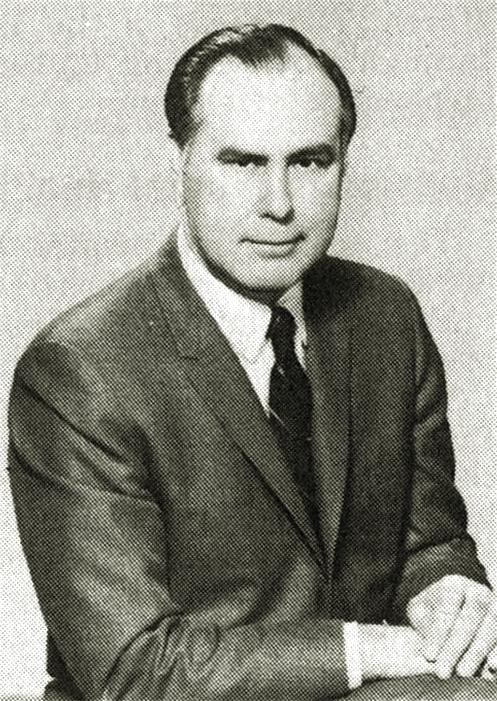 Frederick Patrick "Fred" McGinnis (1921-2012) was an American Methodist minister, academic administrator and government official. McGinnis was the first president of Alaska Methodist University before accepting appointment by governor William A. Egan to head the Alaska Department of Health and Social Services.